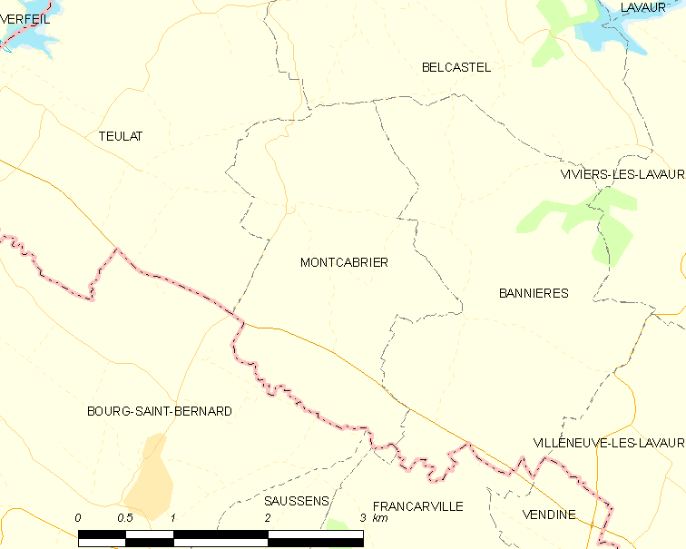 Map of French municipality Montcabrier